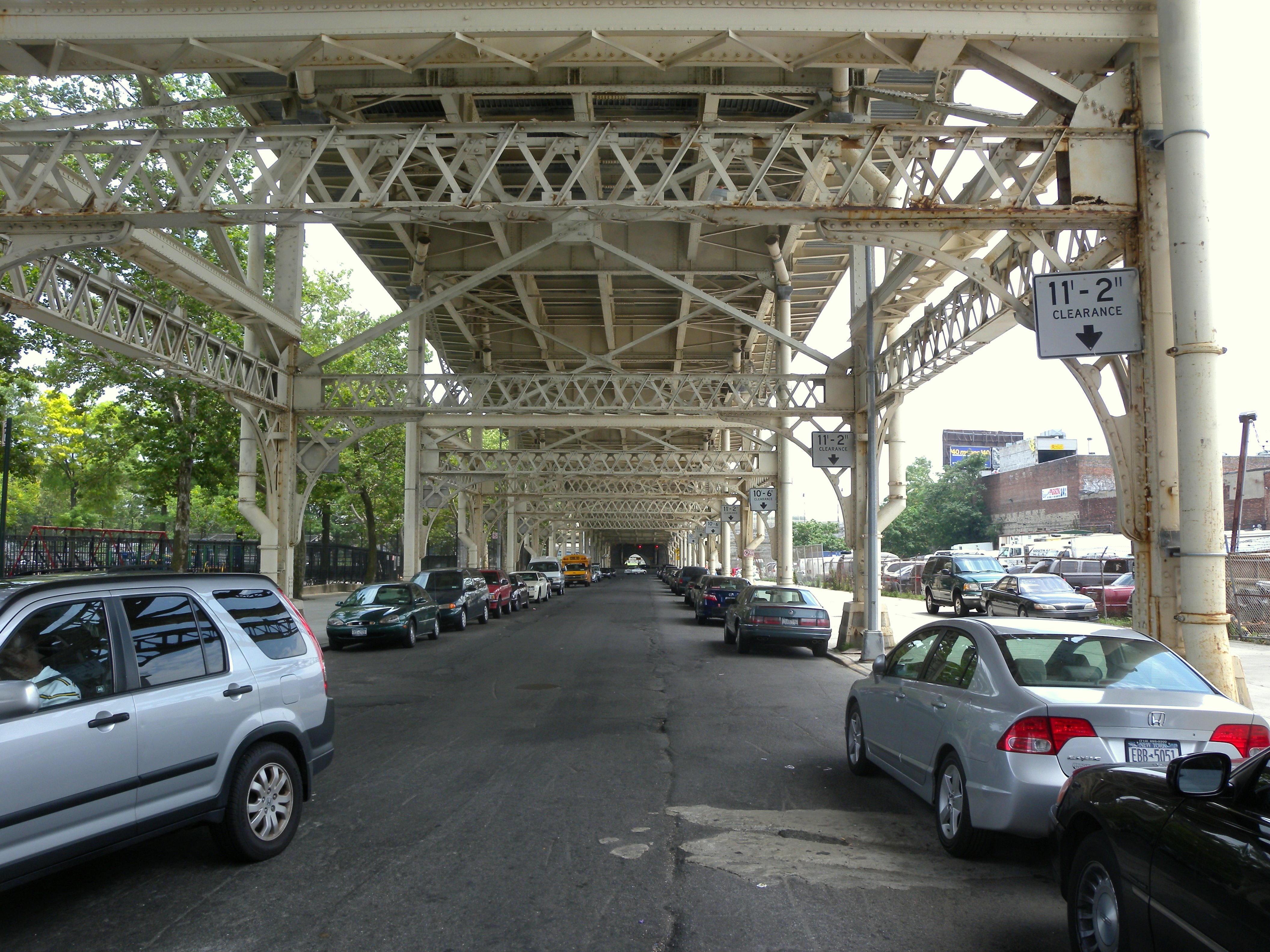 Looking east from Bradford Avenue, under the viaduct shown in File:Top 155 St Causeway jeh.JPG on a mostly cloudy midday.